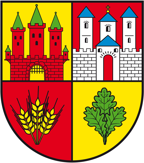 Coat of arms of Möckern